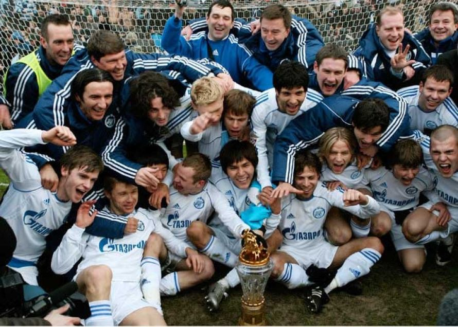 FC Zenit St. Petersburg celebrating 2007 Russian Championship